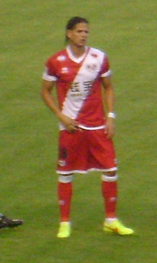 Zé Castro